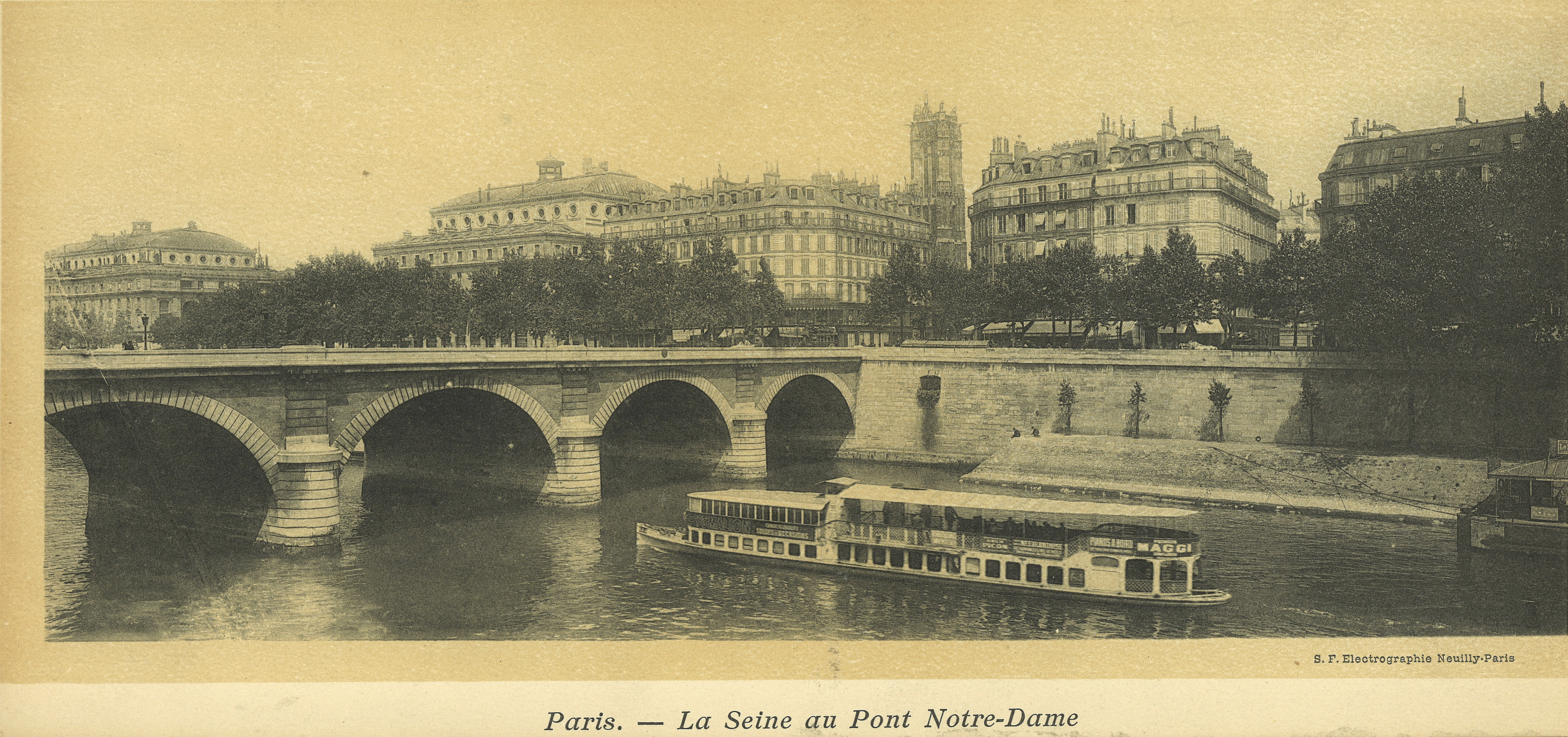 Turn of the century of old Pont Notre-Dame (1853-1919)